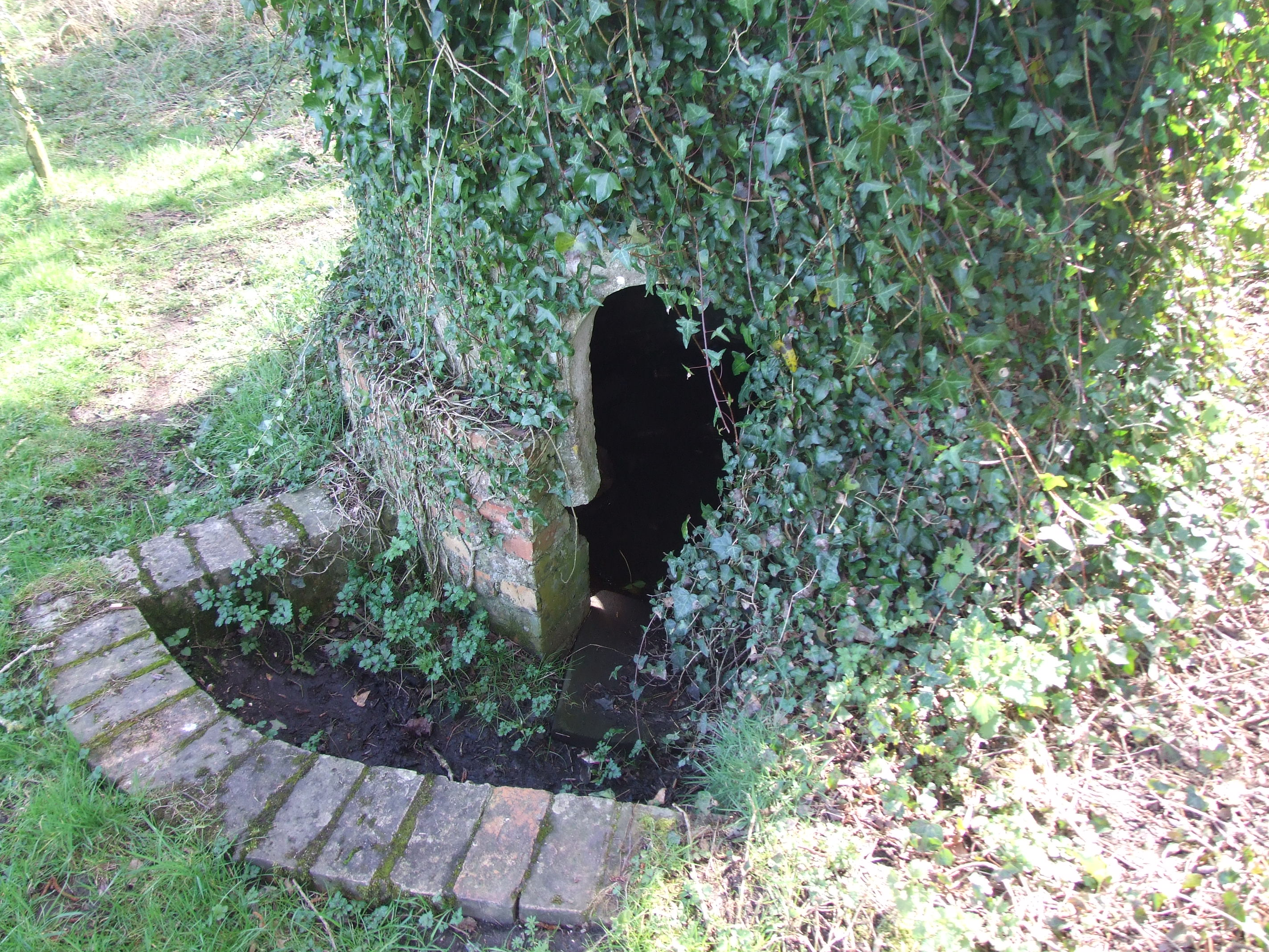 Pillbox Norcon, Moreton Ford